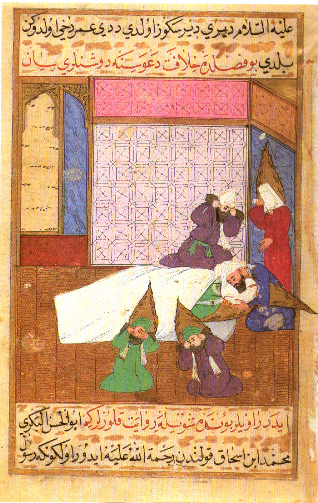 The death of the Prophet Mohammed. Ottoman miniature painting from the Siyer-i Nebi, kept at the Topkapı Sarayı Müzesi, Istanbul (Hazine 1222, folio 414a)